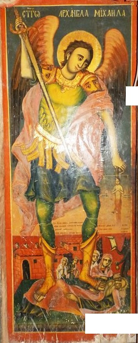 Archangel Michael Icon by Nikola Krastev 1880